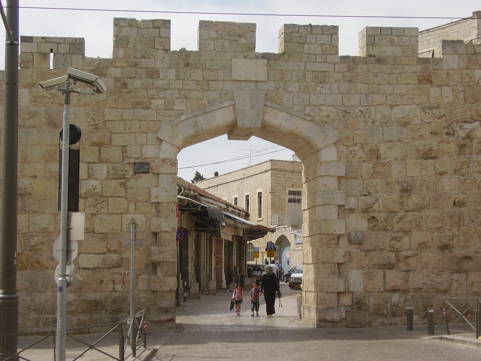 New Gate of Jerusalem\'s Old City wall